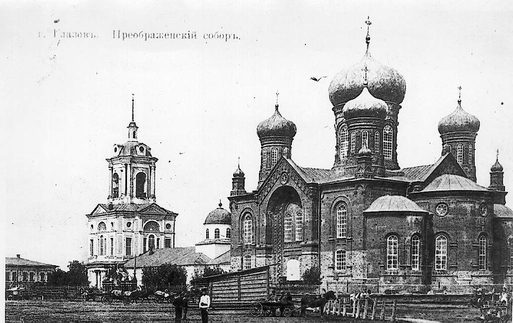 Transfiguration Cathedral in Glazov